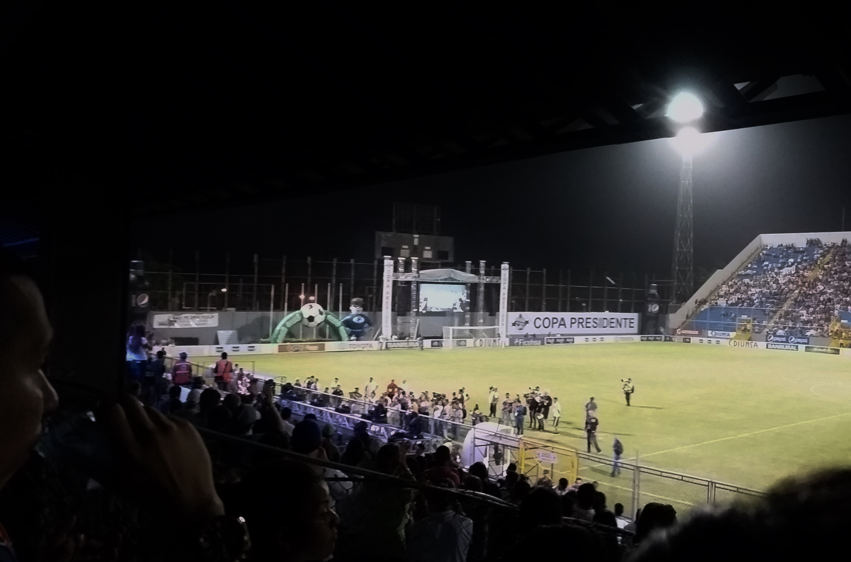 Morazan Stadium may 2015